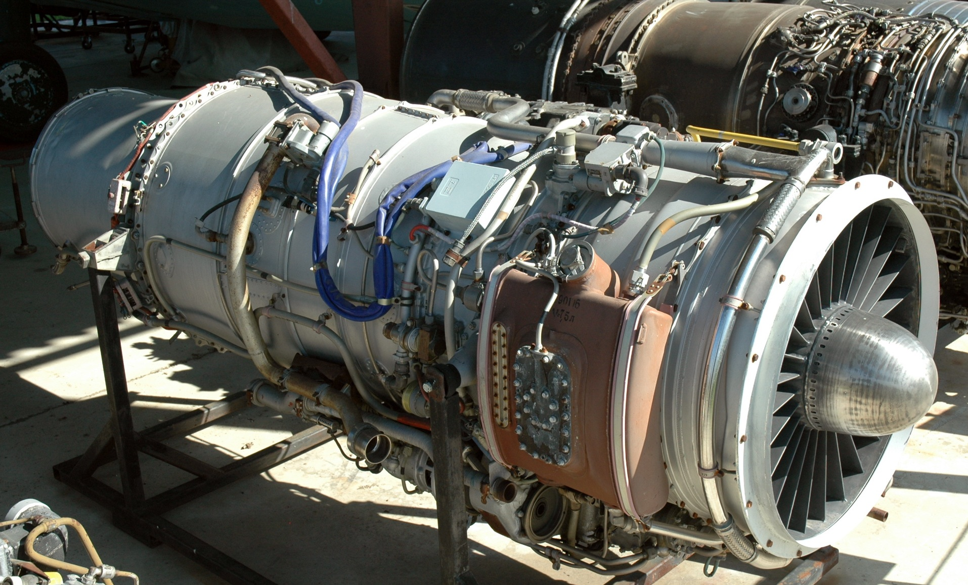 Ivchenko AI-25TL turbofan engine (displayed at the Hungarian Aviation Museum in Szolnok)